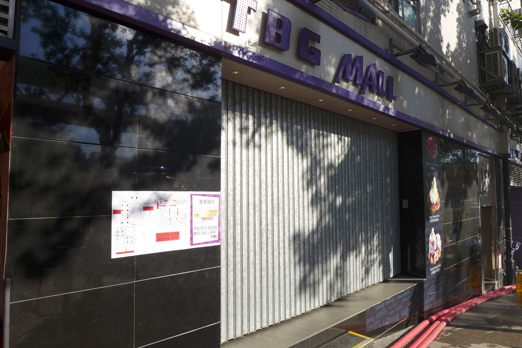 TBG Mall closed